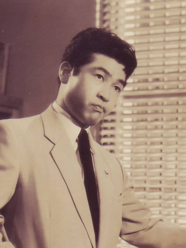 Keiju Kobayashi. Studio Still of the 1955 Japanese film "Atsukama-shi to Oyakama-shi" (Shintoho).